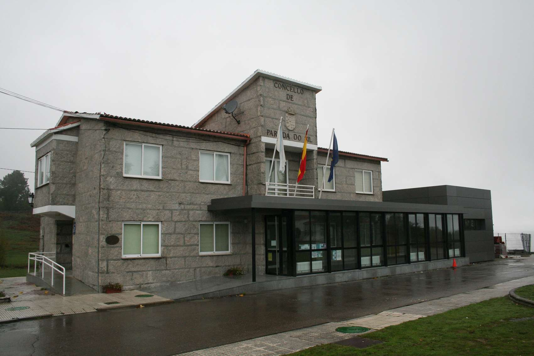 Town Hall in Parada do Sil (Spain)